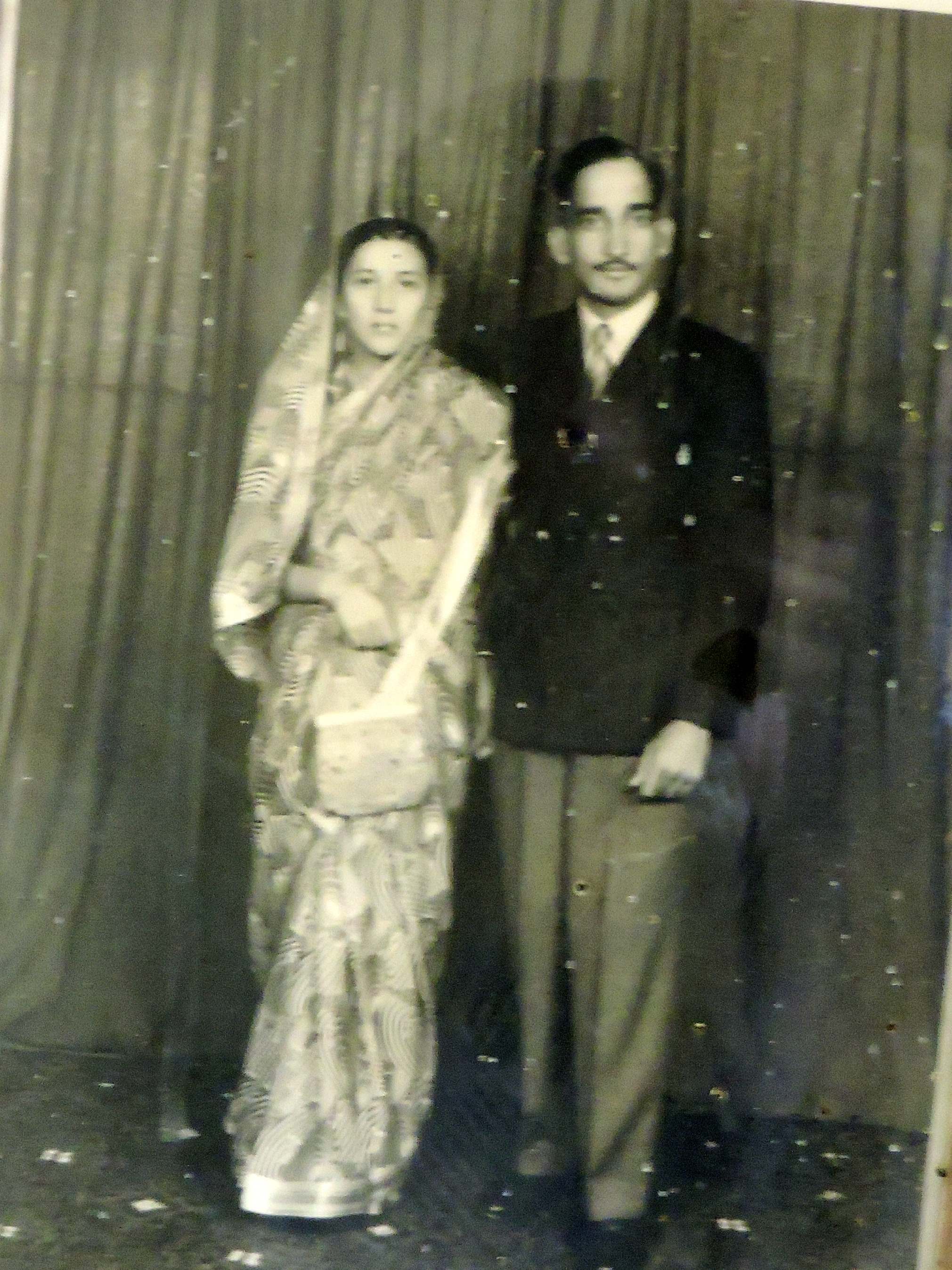 Sh Laxmi Chand last emperor of Beja Hill State alongwith his wife,Himachal Prades, India